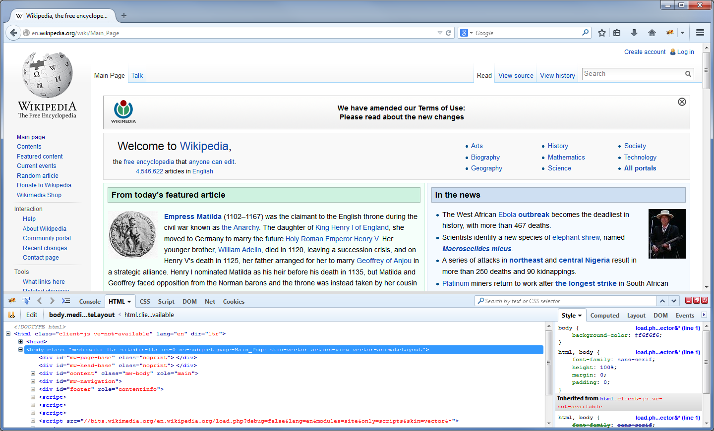 A screenshot of the Firebug web development extension for Mozilla Firefox. Official screenshots (albeit in JPEG) can be found here.